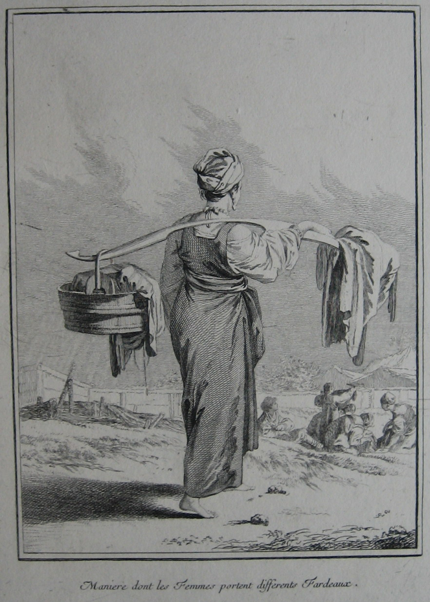 Russian peasant woman with a yoke. Engraving.